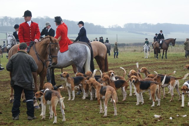 Belvoir hunt meeting. Hunt gathering at Honington House. The woodland on the edge of Honington Heath can be seen in the background.